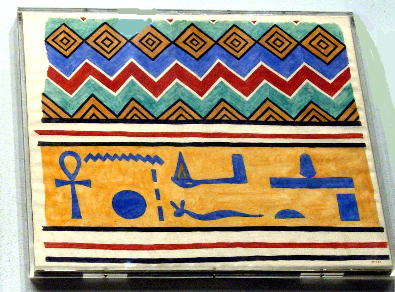 Facsimile, Amenemhat Surer (TT 48), ceiling (enhanced)